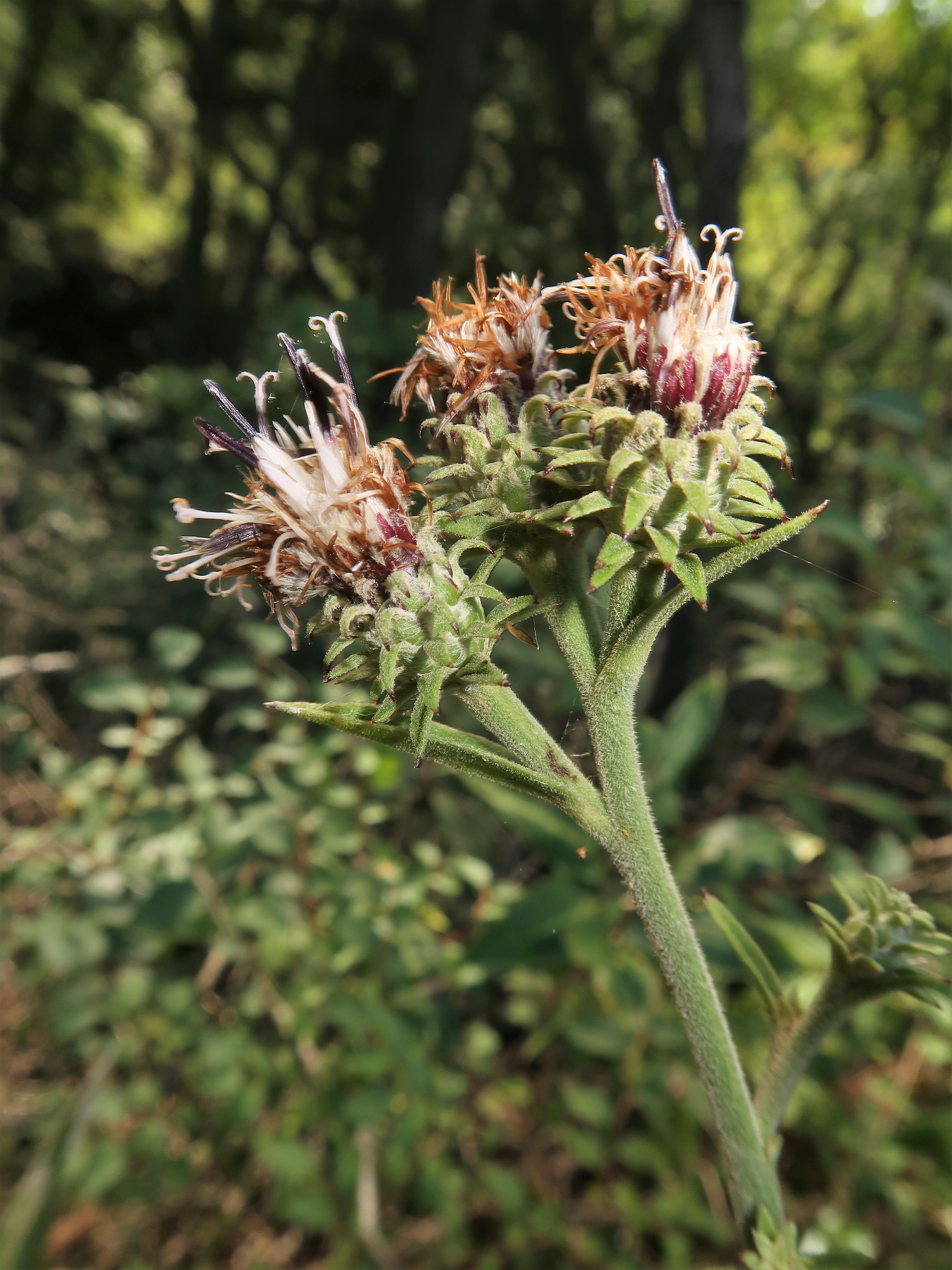 Saussurea muramatsui, Akita city, Akita pref., Japan